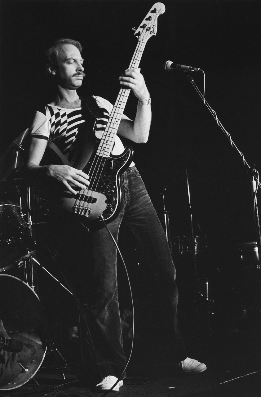 Australian guitarist, Chris Brown playing bass guitar live (not his usual instrument) with Ayers Rock